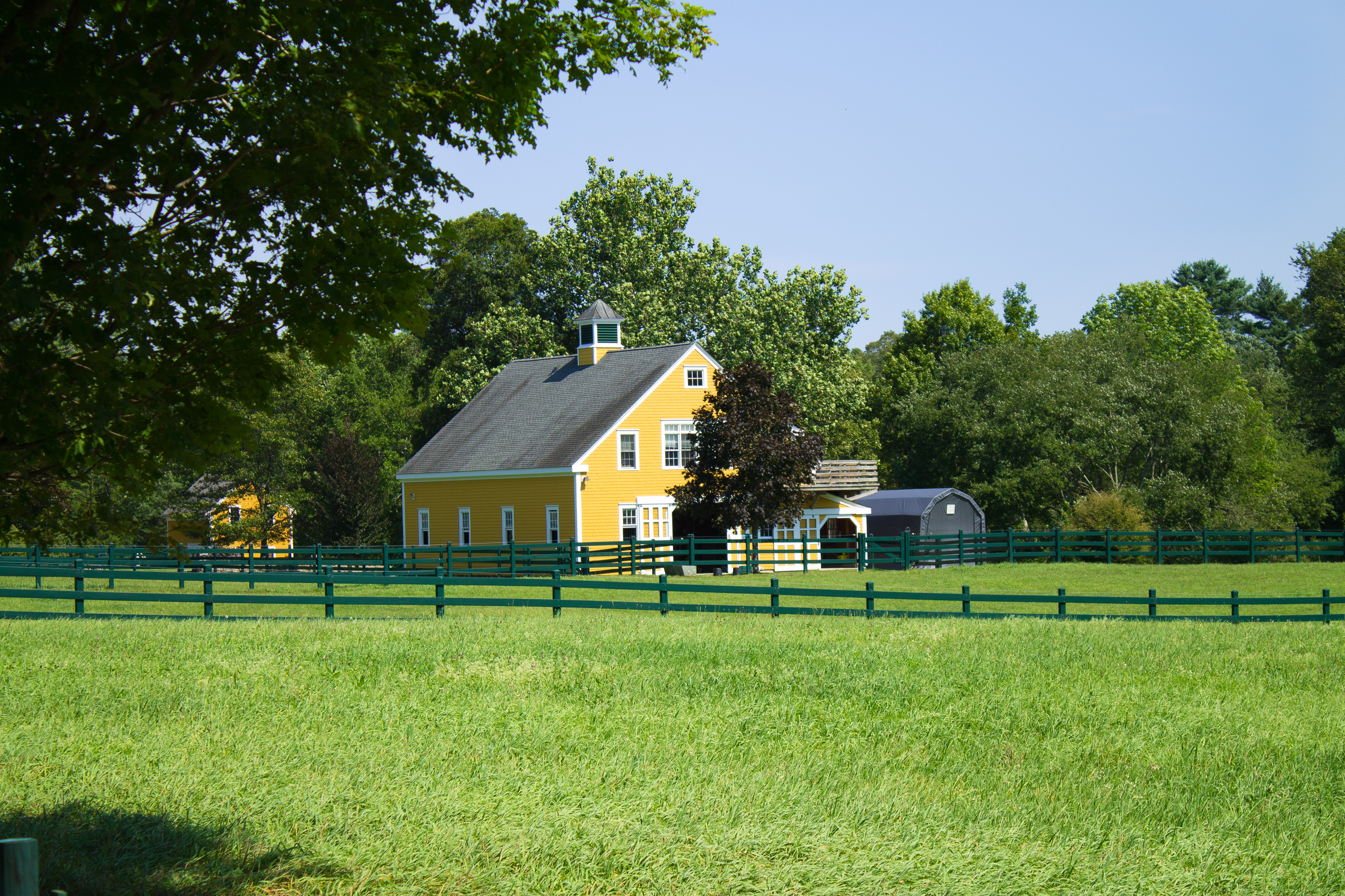 A farmhouse in eastern Rochester, Massachusetts; as part of the larger East Over Farms.